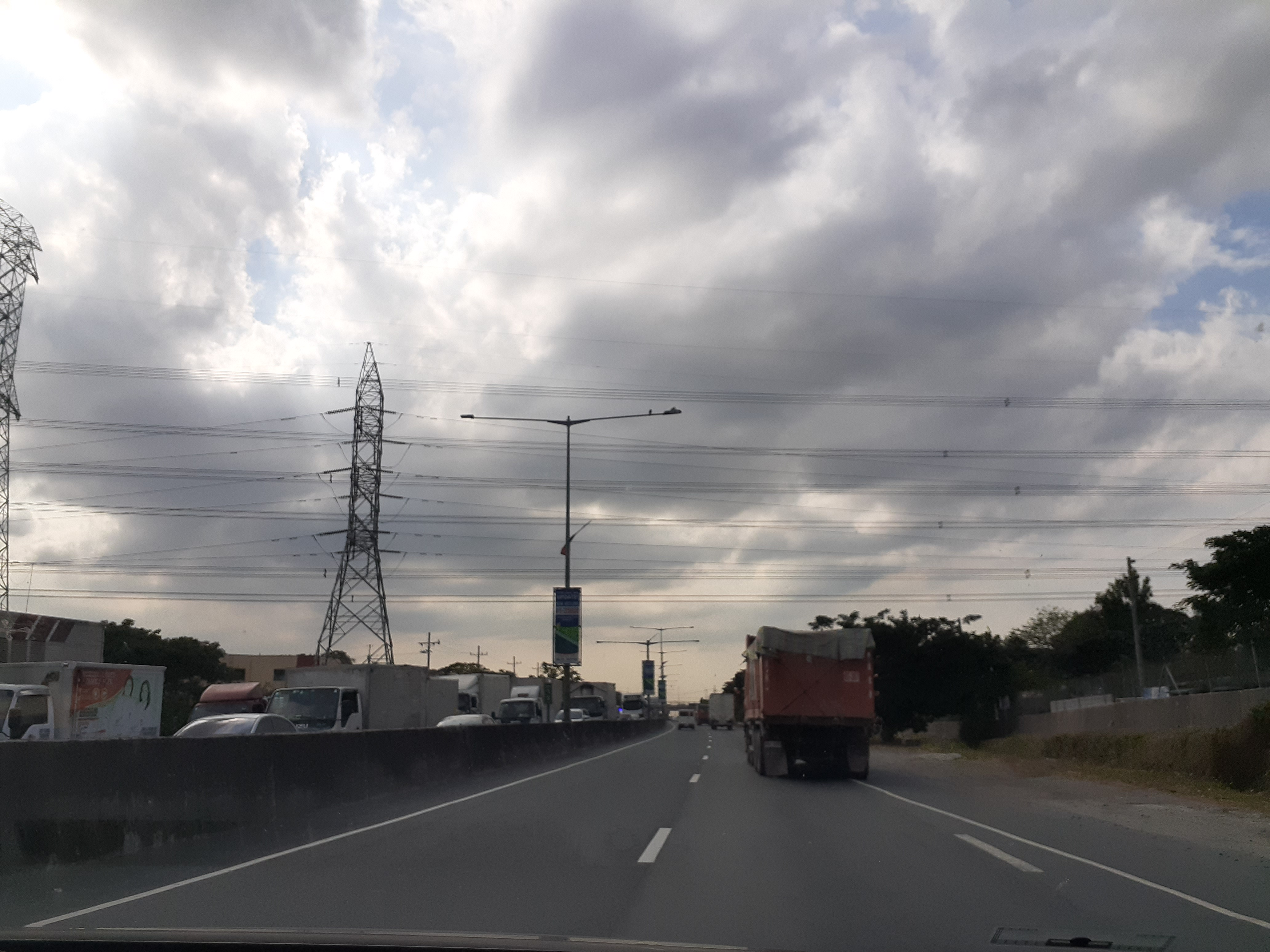 The NLEx-Mindanao Avenue connector link of the North Luzon Expressway (also known as "Segment 8.1" of the NLEX-C-5 segment. This is a component of both C-5 (Circumferential Road 5) and E5 of the Philippine Highway/Expressway Network of DPWH. Photo taken while on the way towards the SMART Connect Interchange.